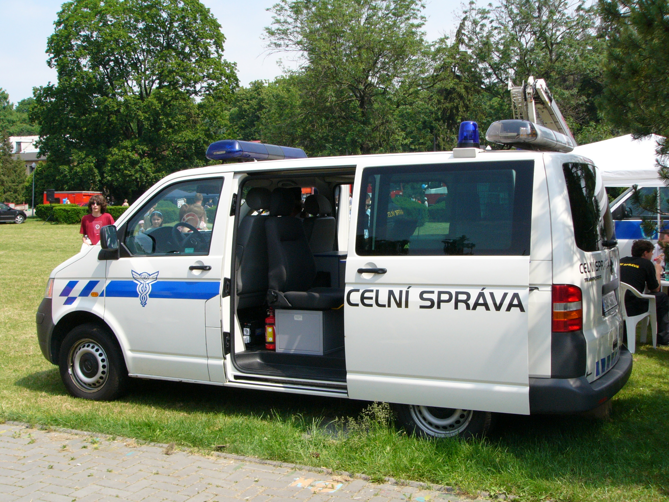 car of Customs Administration of the Czech with a logo and with writings CELNÍ SPRÁVA (Customs Administration) on the car